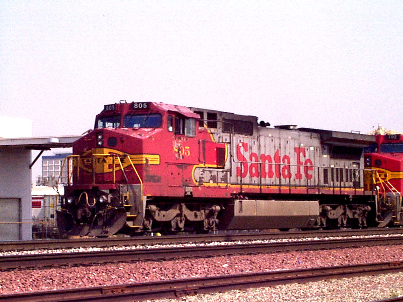 Santa Fe #805, a General Electric C40-8W locomotive in "Super Fleet" (SRS) Warbonnet paint, passes through Los Angeles in March 1999. Photograph by Robert A. Estremo, copyright 1999.